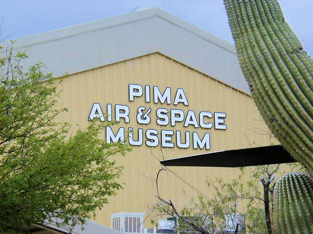 Description: The main building of the Pima Air & Space Museum in Tuscon, Arizona. Source: Photograph made by Michael C. Berch (User:MCB) Date: 2000-10-12